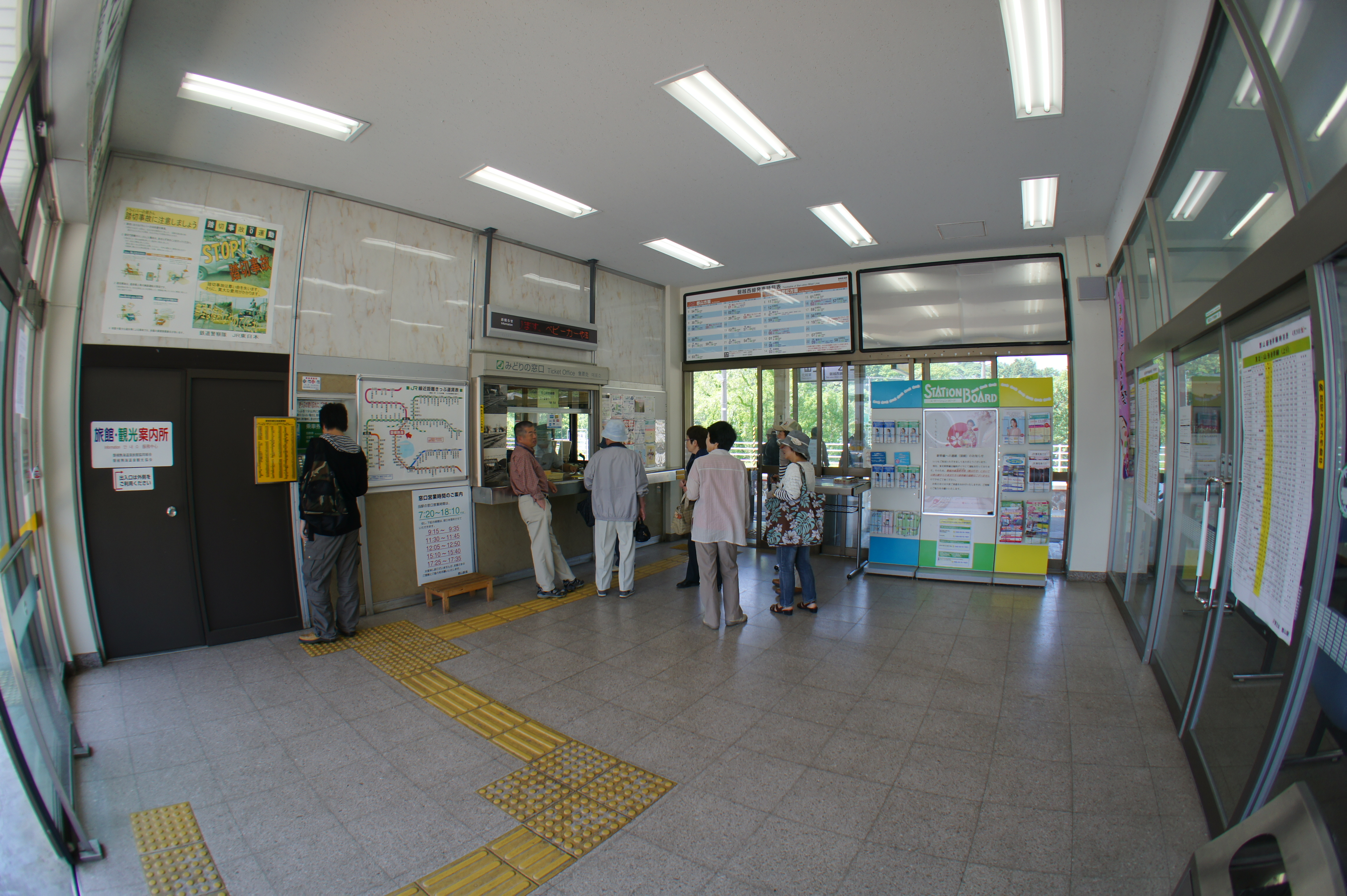 Bandai-Atami Station interior